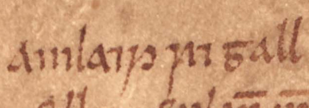 An excerpt from folio 25r of Oxford Bodleian Library MS Rawlinson B 489 (the Annals of Ulster). The excerpt concerns Amlaíb (fl. c.853–871).